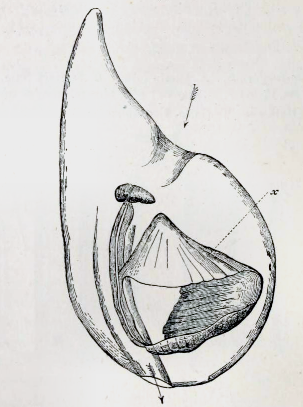 Oikopleura (Vexillaria) cophocerca (Gegenbaur, 1855) in its "house", seen from the right (x 6); arrows indicate course of the water; x) lateral reticulated parts of the "house"